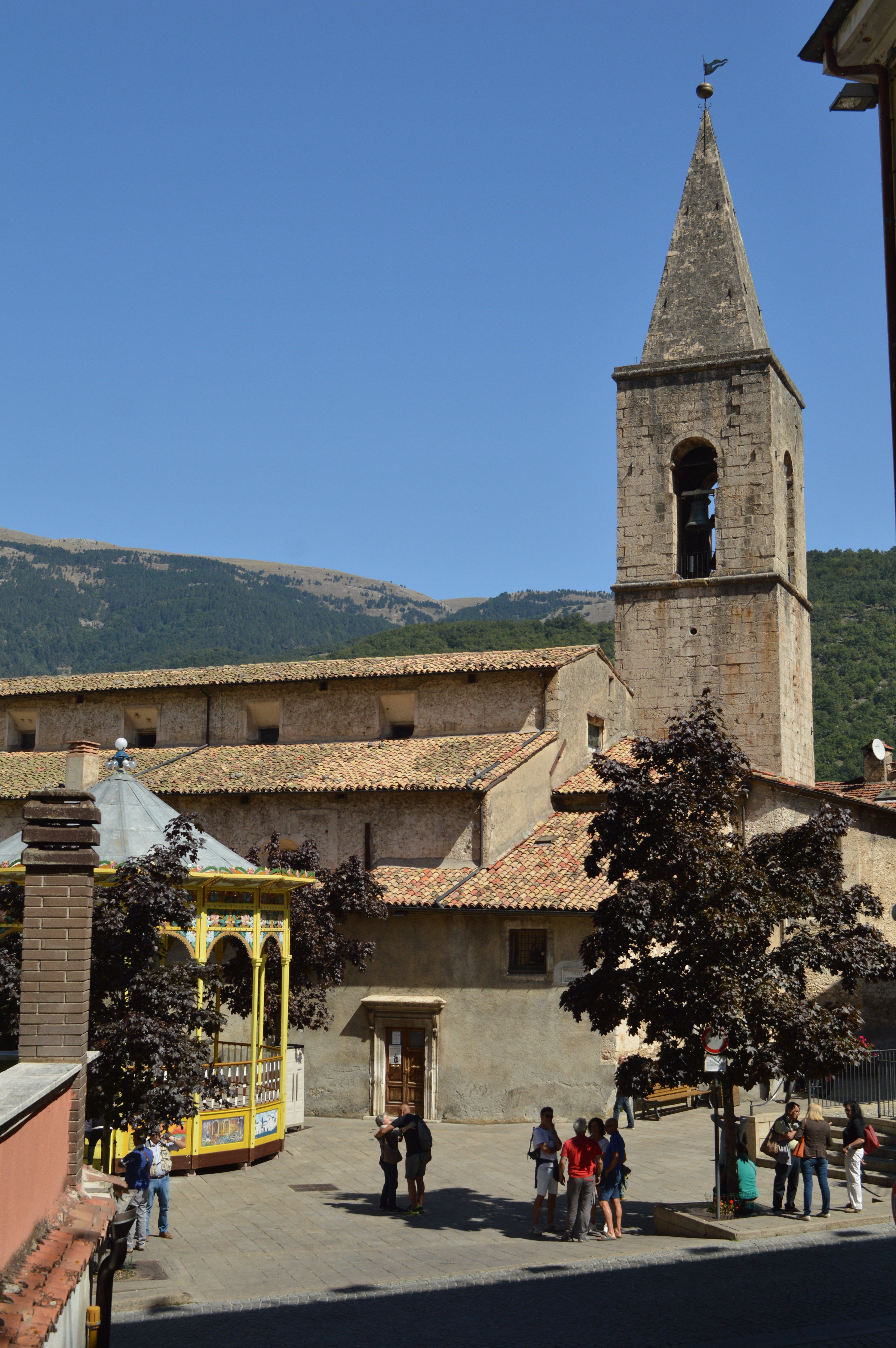 Campanile